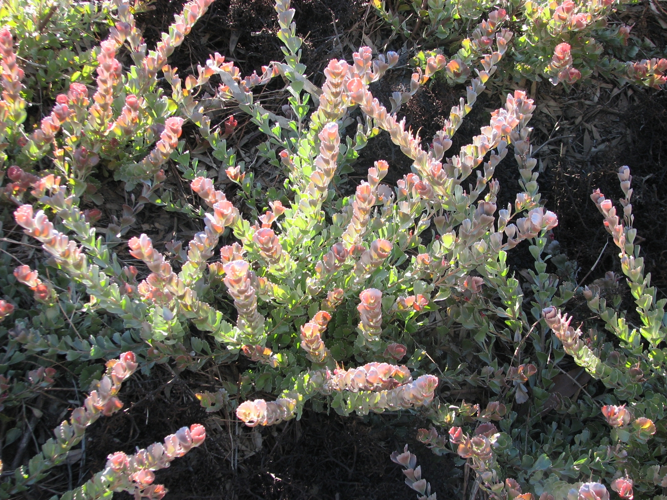 Adenanthos cuneatus 'Coral Drift' (cultivated, labelled) Royal Botanic Gardens Cranbourne, Australia